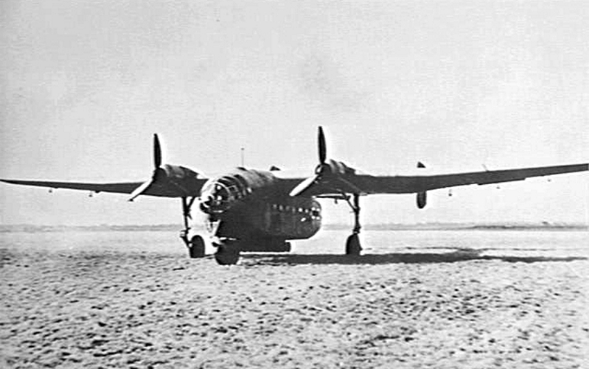 A German Arado Ar 232 A-0 in Germany, 1945. The first ten Ar 232s were equipped with two BMW 801 radials.